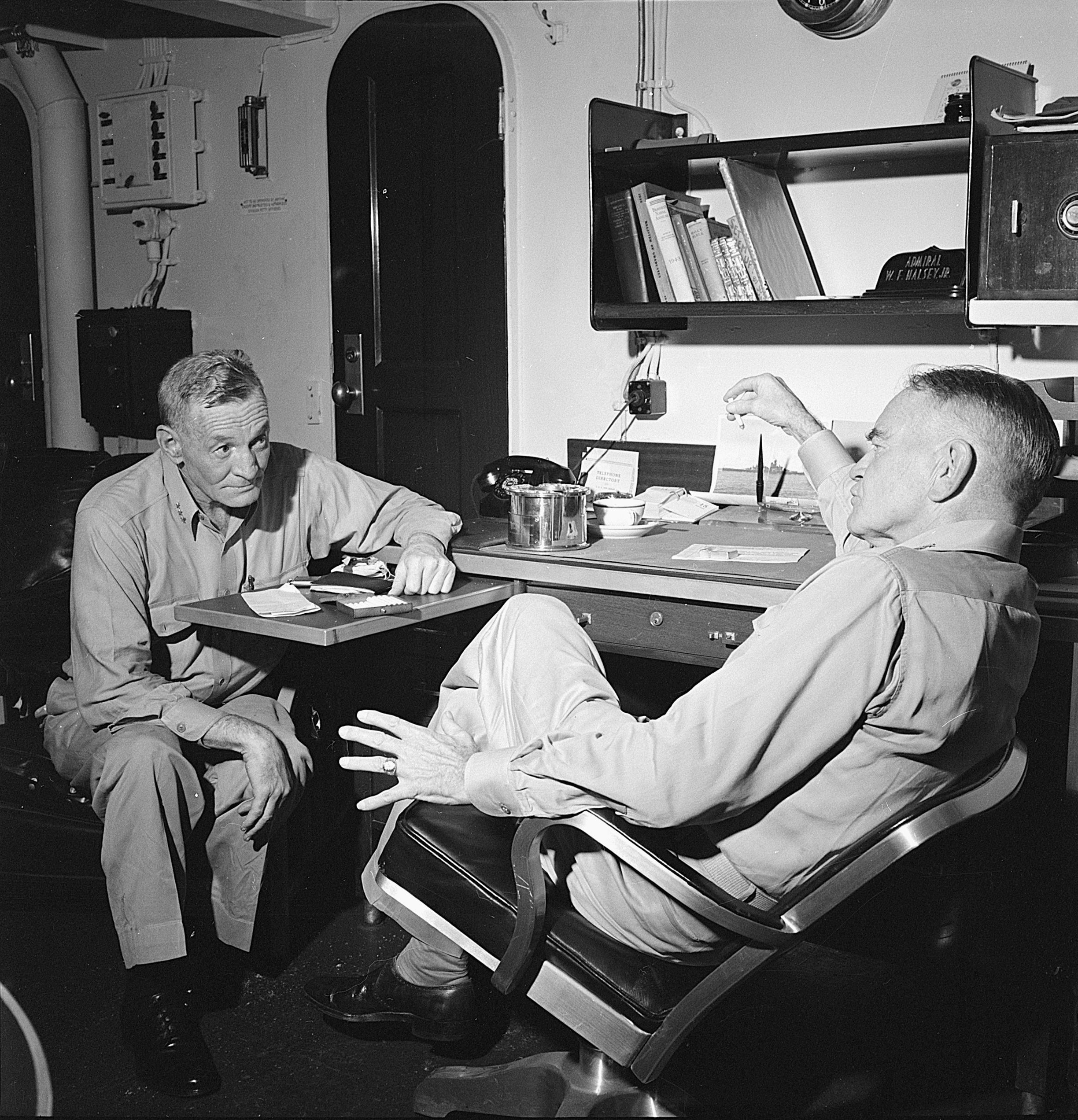 Vice Adm. John S. McCain (left) and Adm. William F. Halsey, Com. 3rd Flt., hold conference on board USS New Jersey (BB-62) en route to the Philippines.